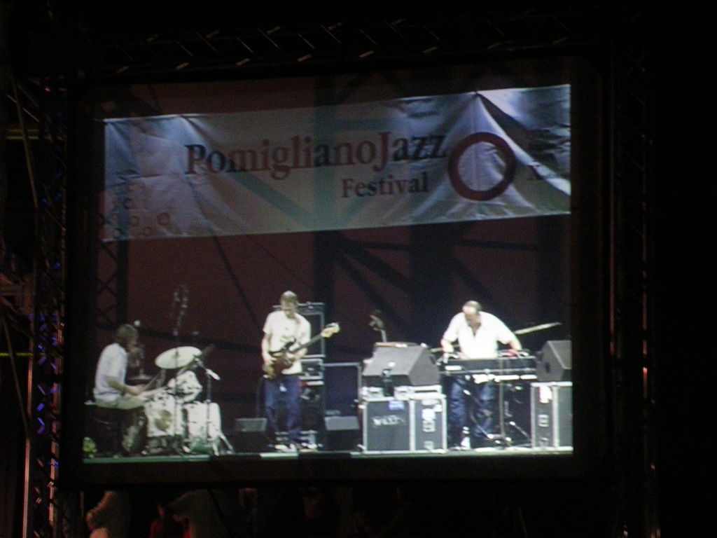 Billy Martin, Chris Wood and John Medeski (Pomigliano Jazz festival 2005)